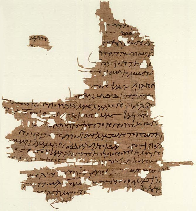 Gospel of Mary, discovered in 1896. P. Oxyrhynchus L 3525, Papyrology Room, Ashmolean Museum, Oxford.